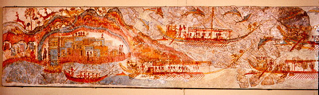 Minoan fresco of the town of Akrotiri, Santorini, Greece